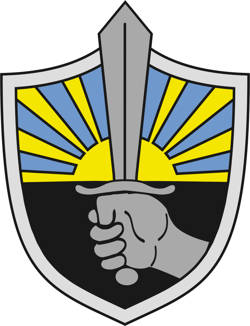 Staff emblem of the 1st Infantry Brigade of the Estonian Army.